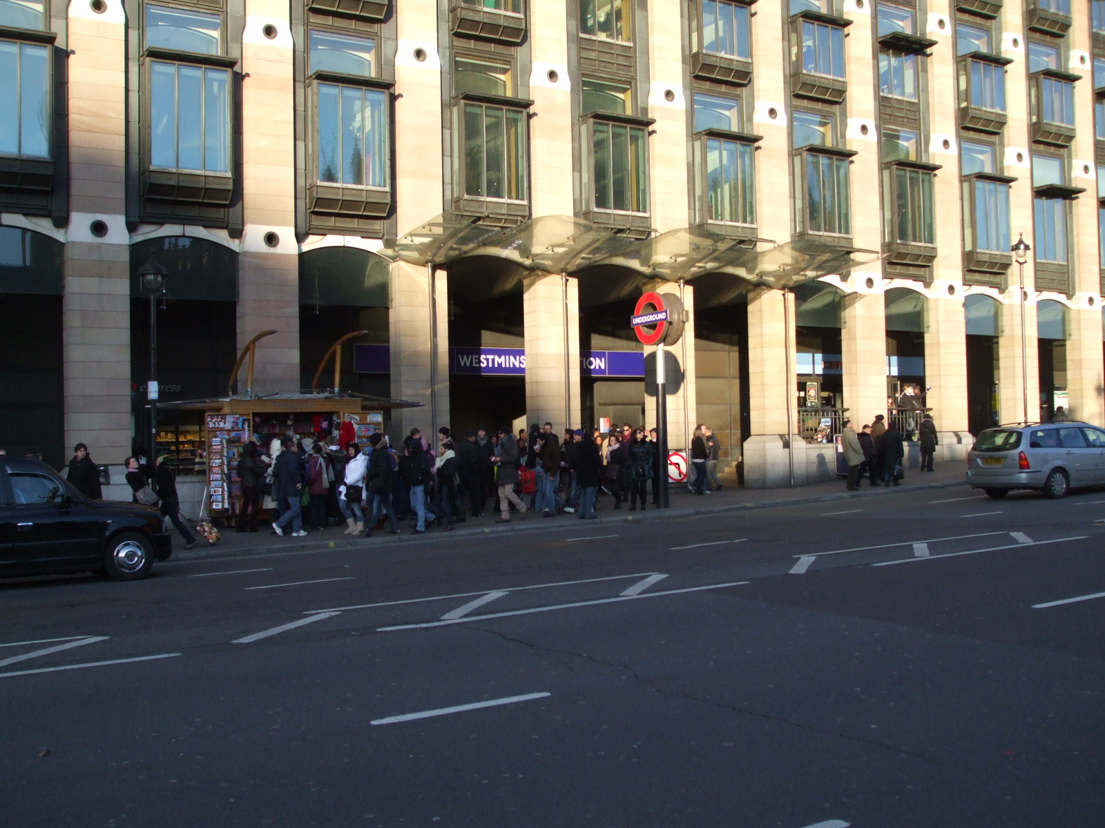 Westminster tube station entrance in the base of Portcullis House, used as Parliamentary offices.